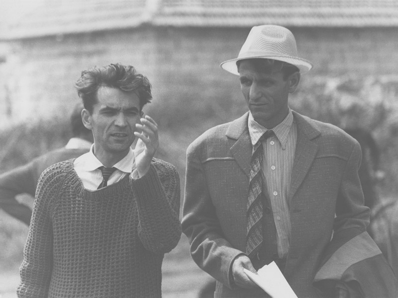 Vlad Iovita's Moldavian movie director during work (in the left part of a photo). 60th years.